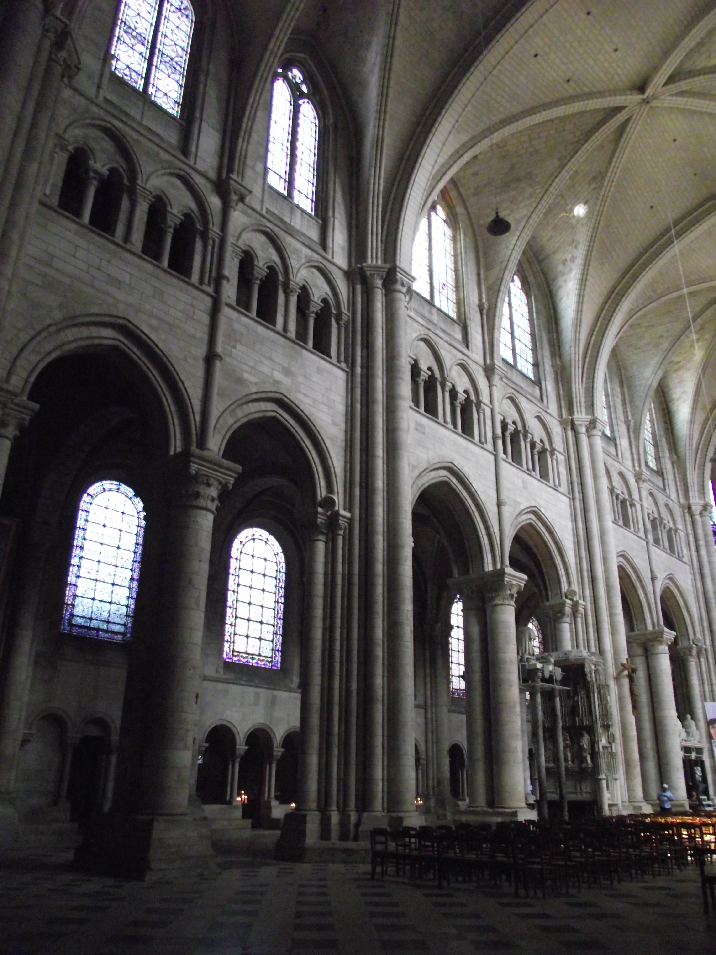 Sens, Interior of St. Stephen's Cathedral